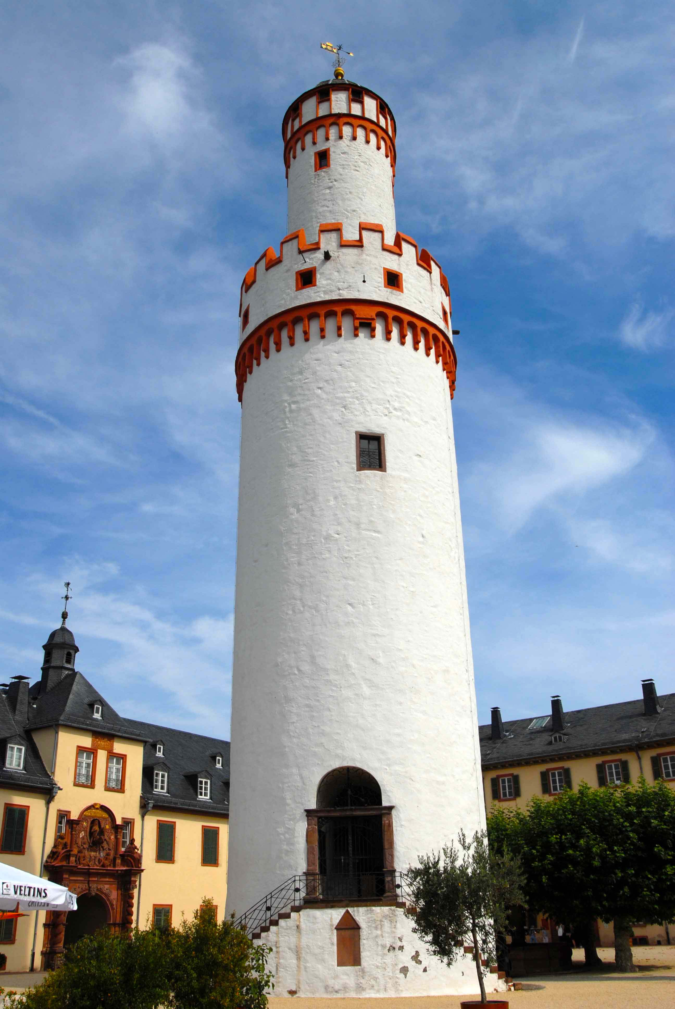 White Tower